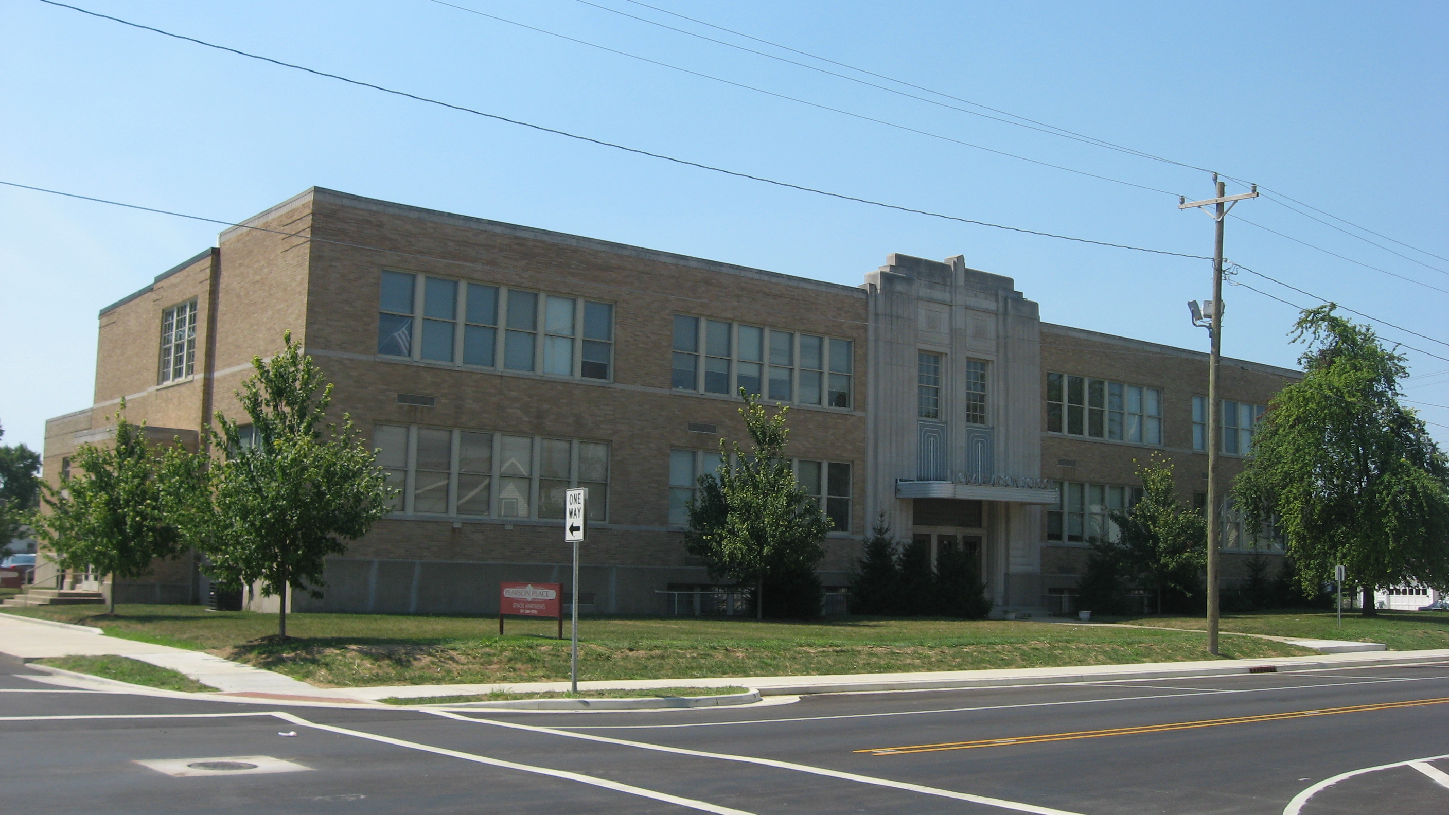 Front of the former Lora B. Pearson School (now an apartment building), located at 115 W. Colescott Street (State Road 44) in Shelbyville, Indiana, United States. Built in 1939, it is listed on the National Register of Historic Places.